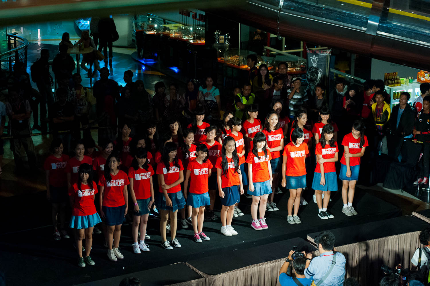 Finalists in the selection of second generation JKT48 members are introduced at an autograph event to commemorate the release of Love JKT48: The 1st Official Guide Book.